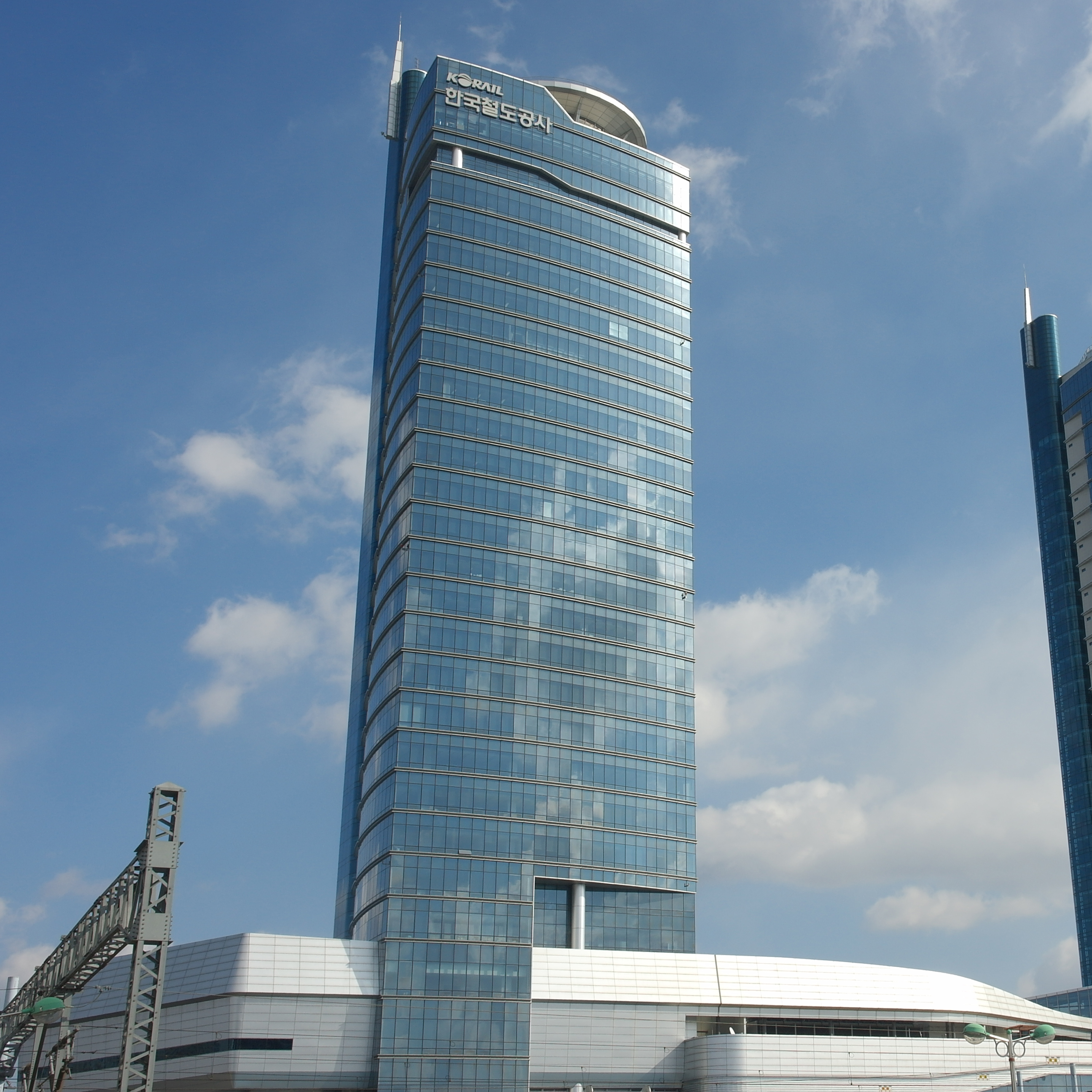 Daejeon Dong-gu Jungang-ro / Korea Railroad Corp.